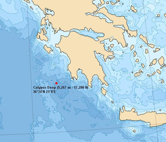 Map showing the location of Calypso Deep. the deepest point in the Mediterranean Sea